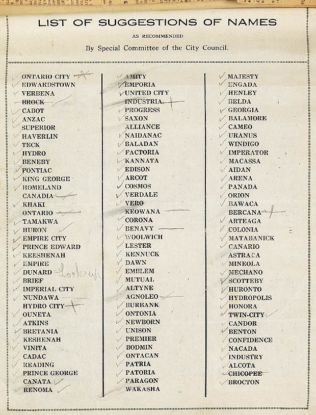 A list of suggested names for the anticipated change of name of Berlin, Ontario, Canada in 1916. The name eventually chosen, "Kitchener", is notably absent form the list; it was added to the shortlist of entries soon after the death of Lord Kitchener on 5 June 1916.